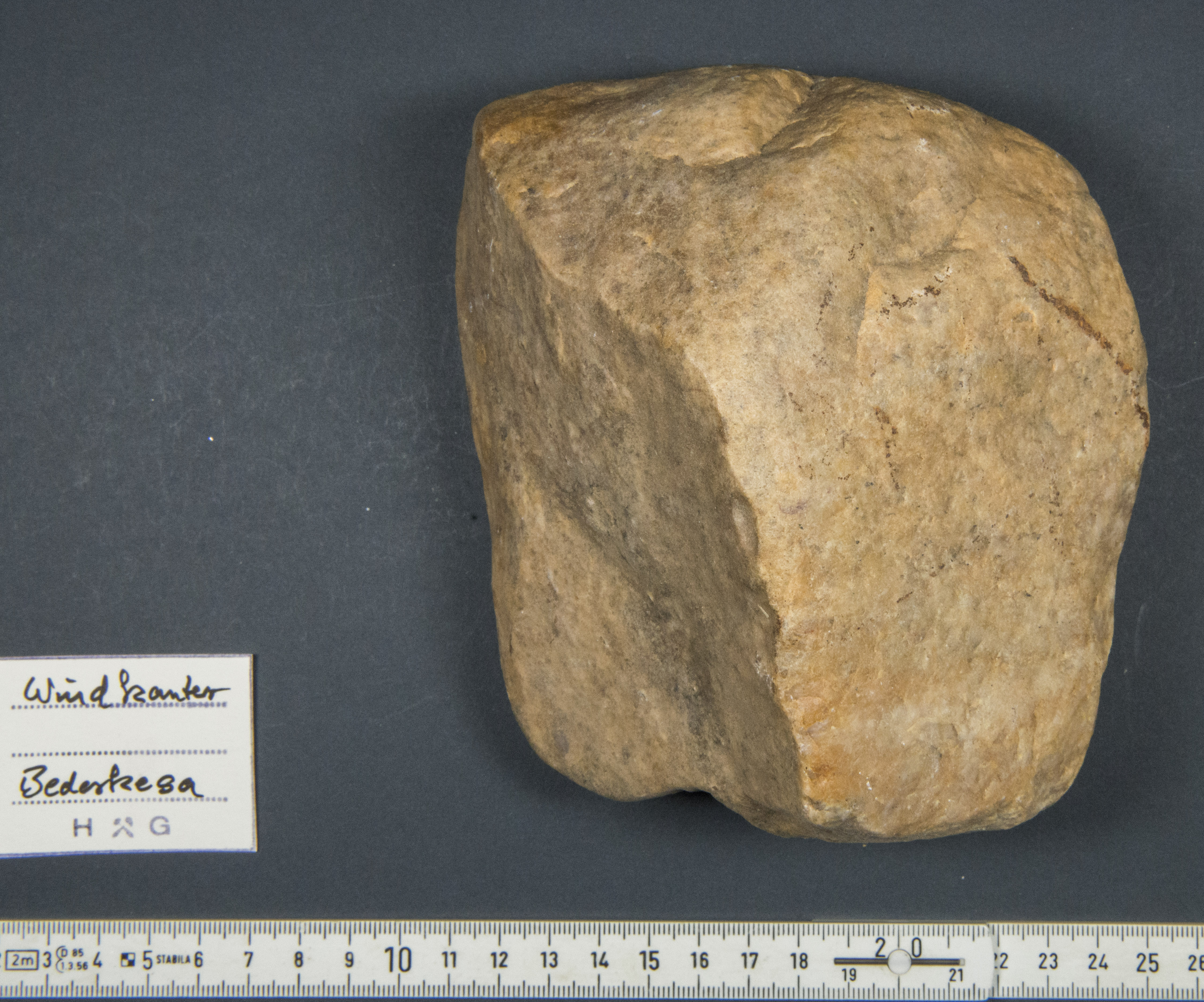 Ventifact made of quartzite, from near Bederkesa in the Elbe-Weser Triangle area of north Germany.